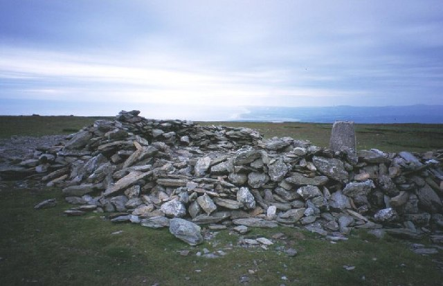 Black Coombe Summit